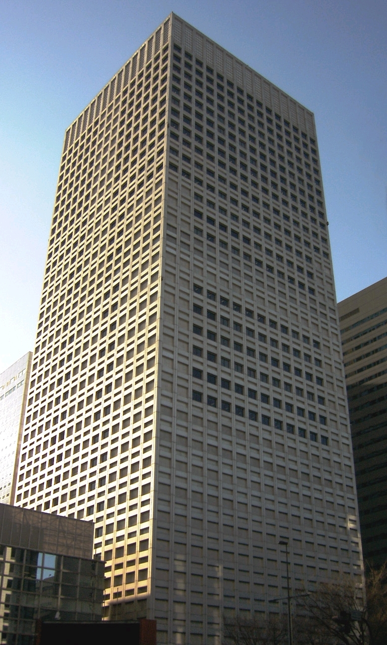 KDDI_Office_Building_Shinjuku Tokyo Japan